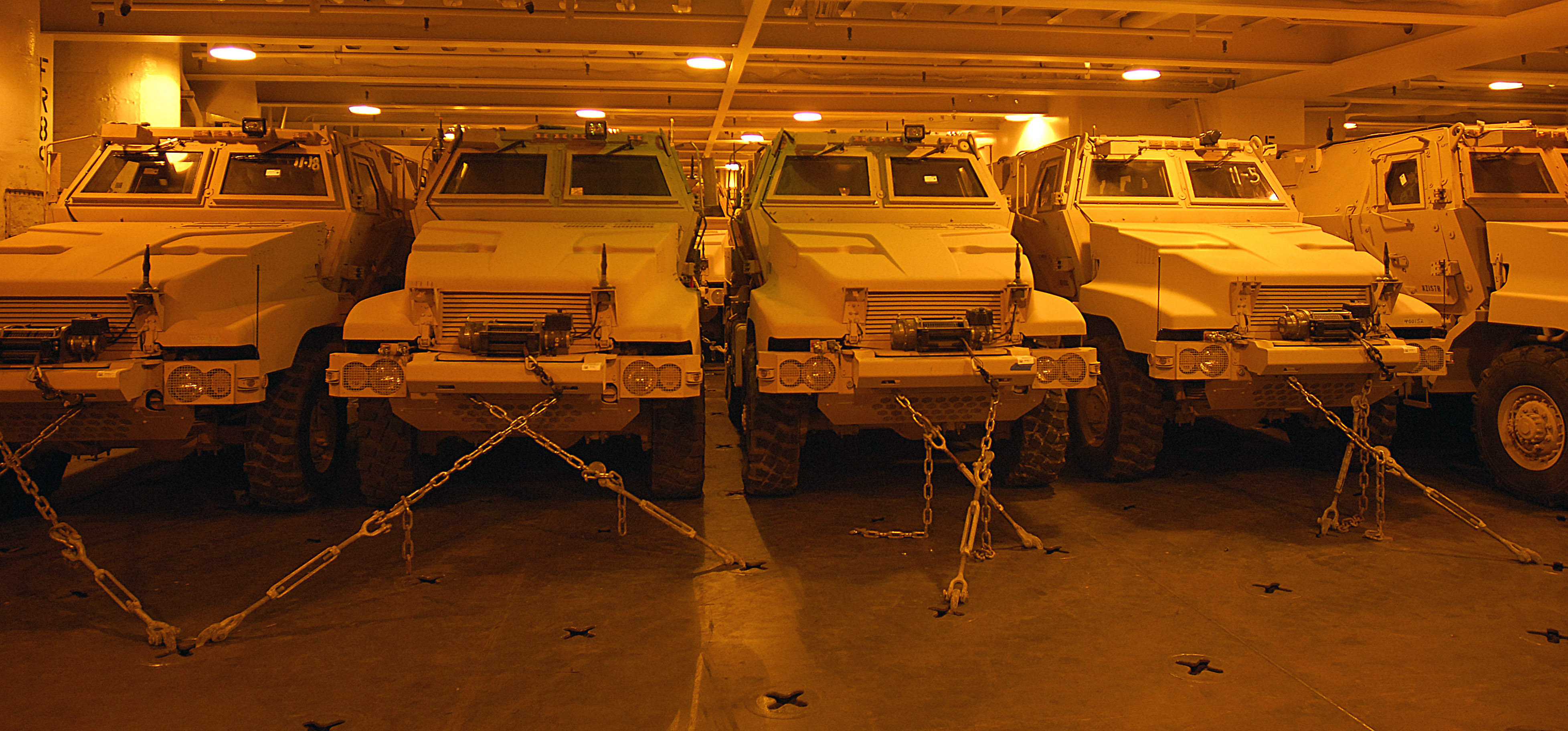 ASH SHU'AYBAH, Kuwait (January 13, 2008) Mine resistant ambush protected vehicles (MRAP) are offloaded from the Military Sealift Command roll-on/roll-off ship USNS Pililaau (T-AKR 304) onto the pier. More than 200 MRAPs were unloaded from Pililaau and are on their way to Iraq and Afghanistan where they will be used to help protect troops from improvised explosion devices. U.S. Navy photo by Mass Communication Specialist 2nd Class Kelvin Surgener (Released)